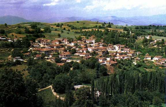 Nostimo village, image from the Fossil Exhibition, Nostimo, West Macedonia, Greece